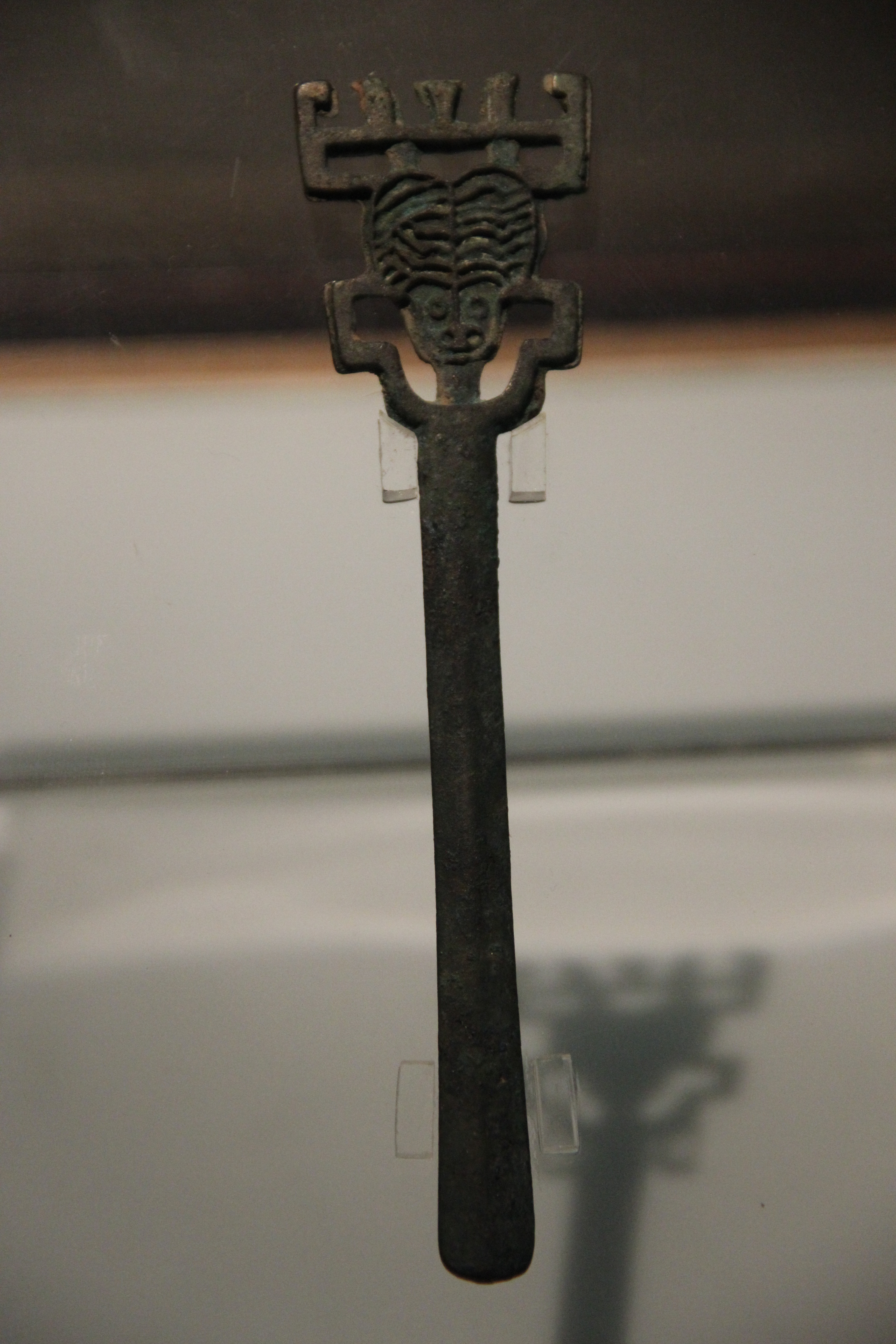 Shanxi Provincial Museum, Taiyuan. Complete indexed photo collection at .